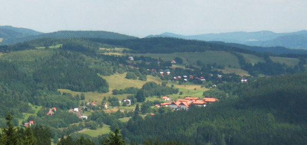 Mariánská (part of Jachymov, Ore Mountains, Czech Republic)